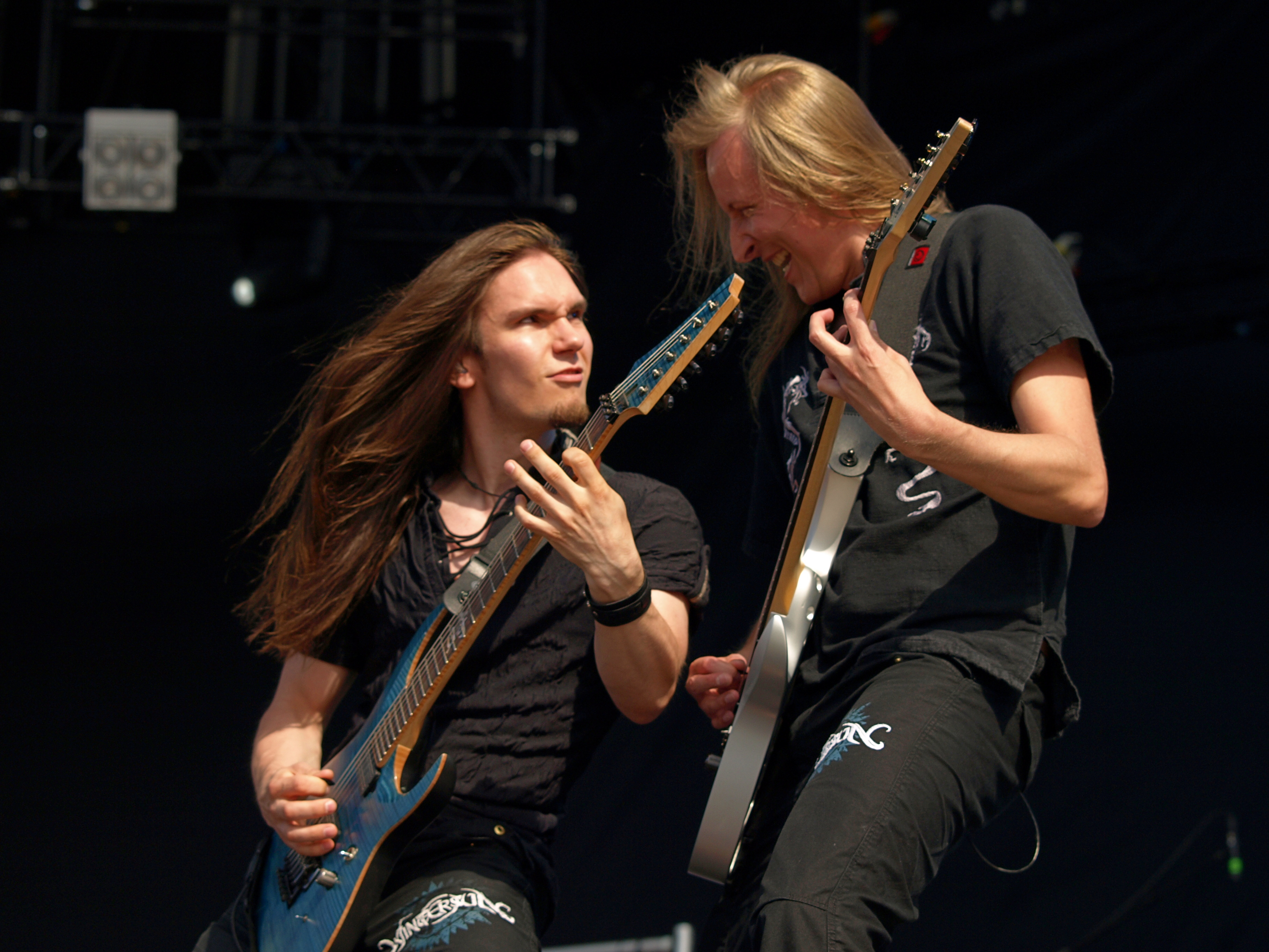 Finnish metal band Wintersun live at Tuska Open Air 2013